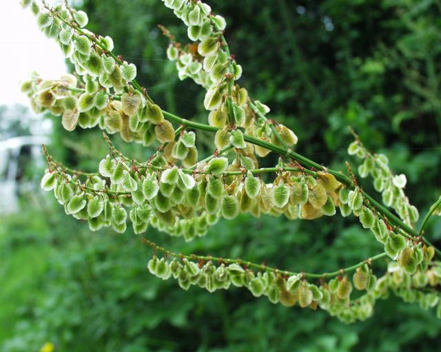 (en) Common Sorrel Rumex acetosa, a photography originating of the internet site The accord of the autor, H. Brisse, is here. (fr) Grande Oseille (Rumex acetosa), une photographie issue du site internet L'accord de l'auteur, H. Brisse, se situe ici. (it)Rómice Acetosa ; (de)Wiesen-Sauerampfer ; (Es)Acedera común ; (Nl)Veldzuring